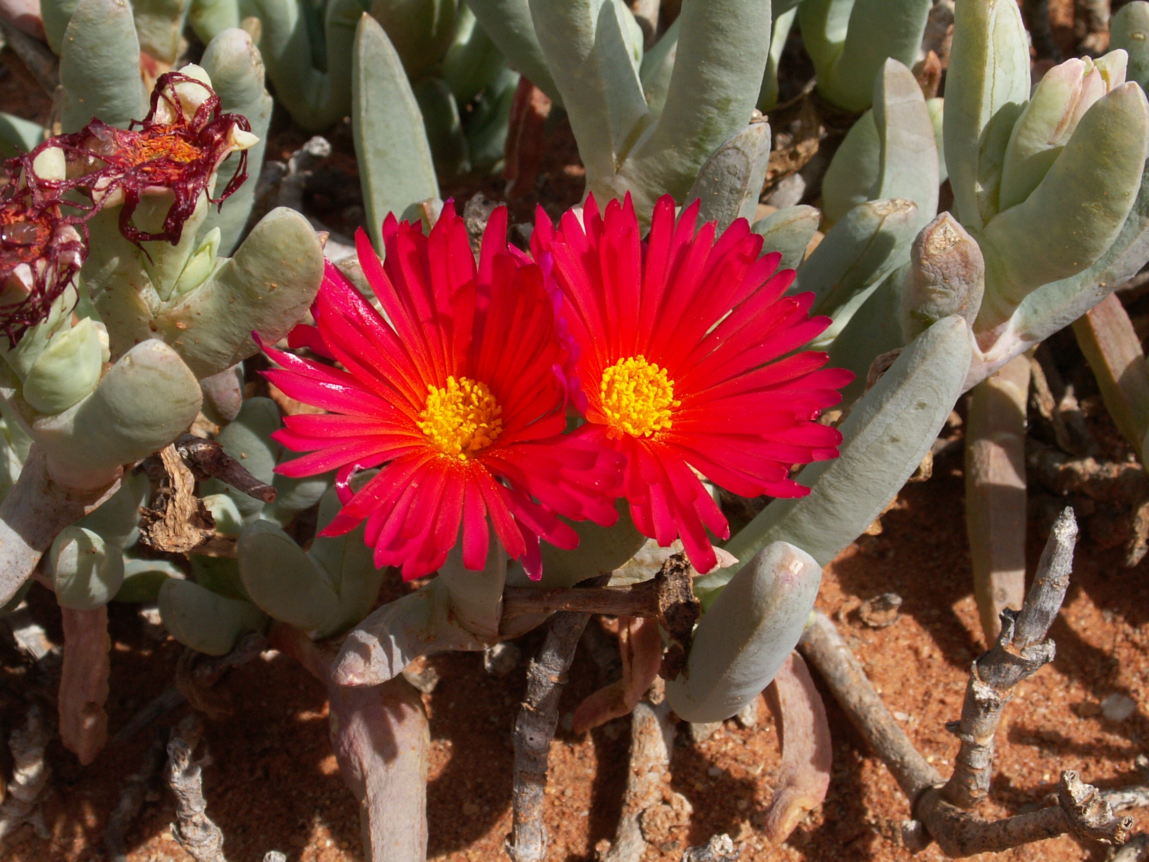 Unidentified Aizoaceae, Succulent Karoo, Quartz fields in the Knersvlakte, Landscapes of South Africa, Matzikama Local Municipality, West Coast District Municipality, Western Cape Province of South Africa